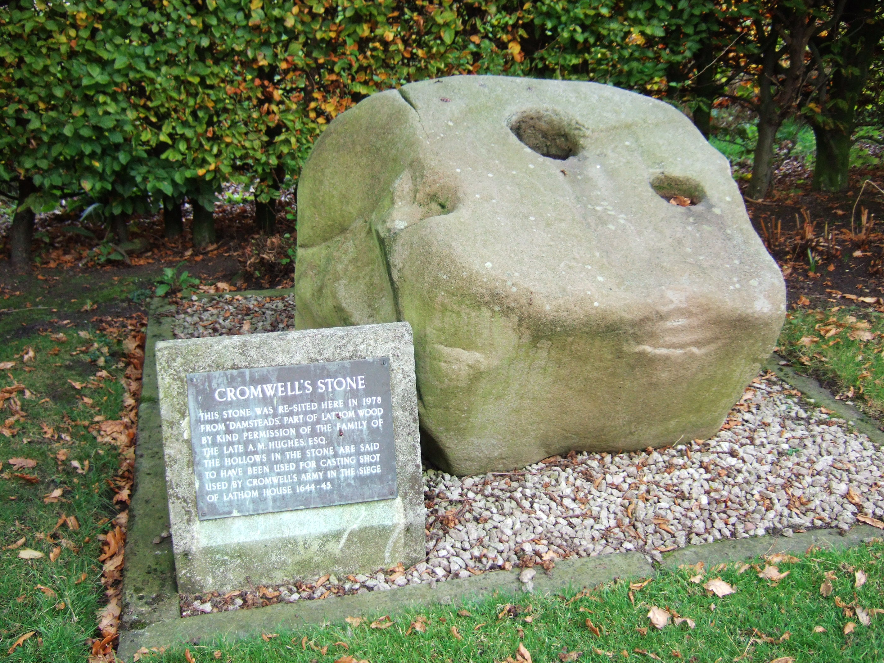 Cromwell's Stone, situated in the grounds of Lathom Park Chapel, in Lathom, Lancashire, England.